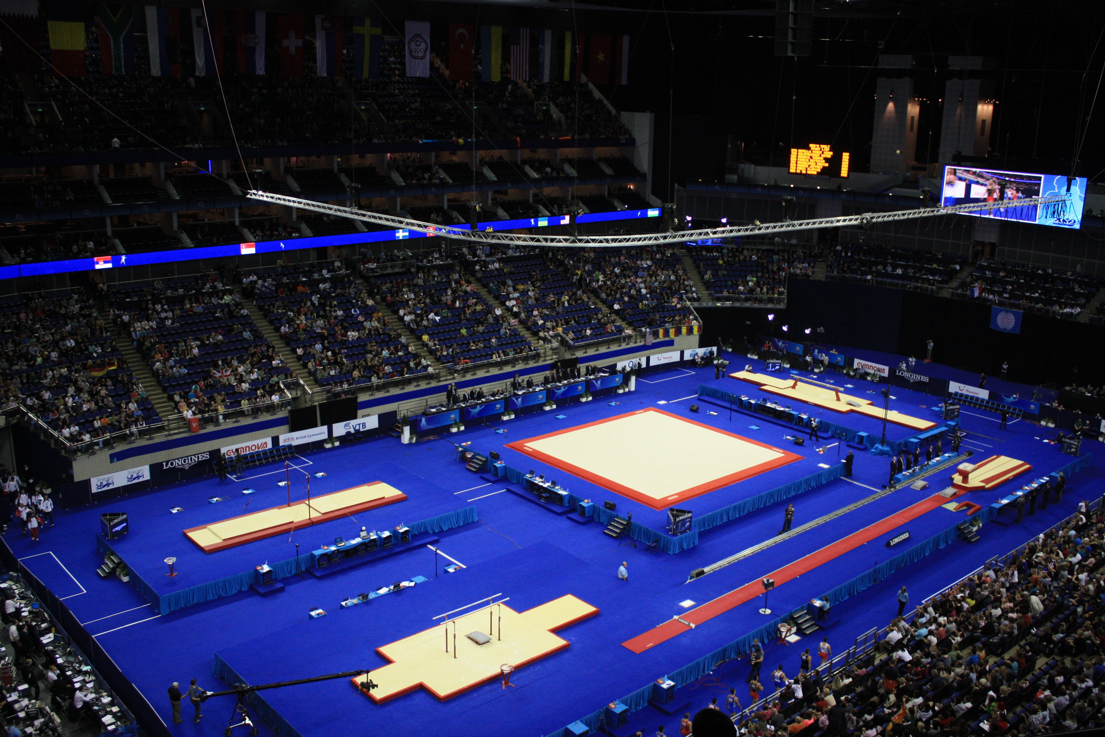 The 2009 World Artistic Gymnastics Championships. Men's vault finalists are entering on the left.